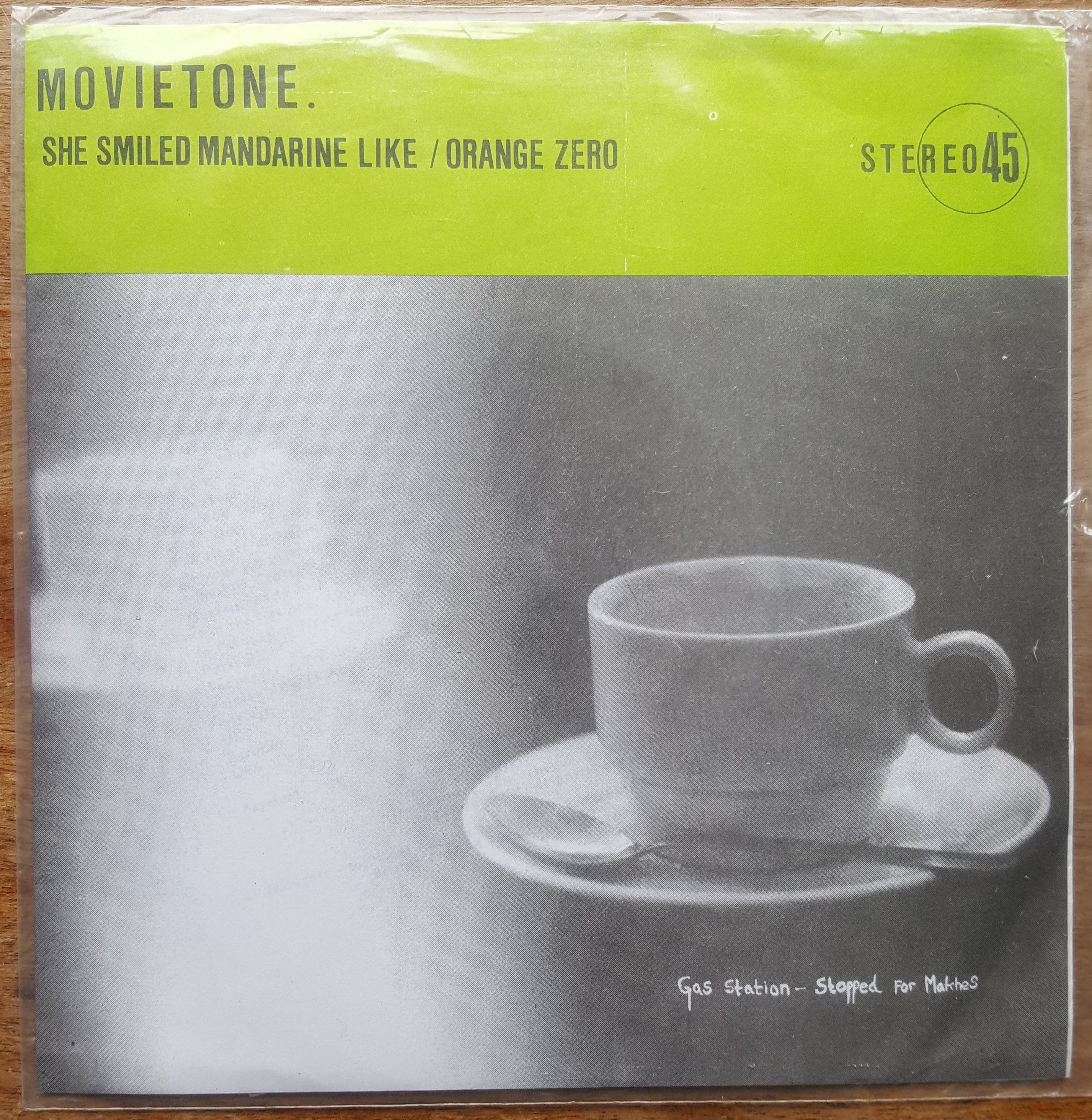 Movietone She Smiled Mandarine Like/Orange Zero 7 inch, Planet Records PUNK003 1994